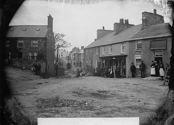 1 negative : glass, wet collodion, b&w ; 12 x 16.5 cm.